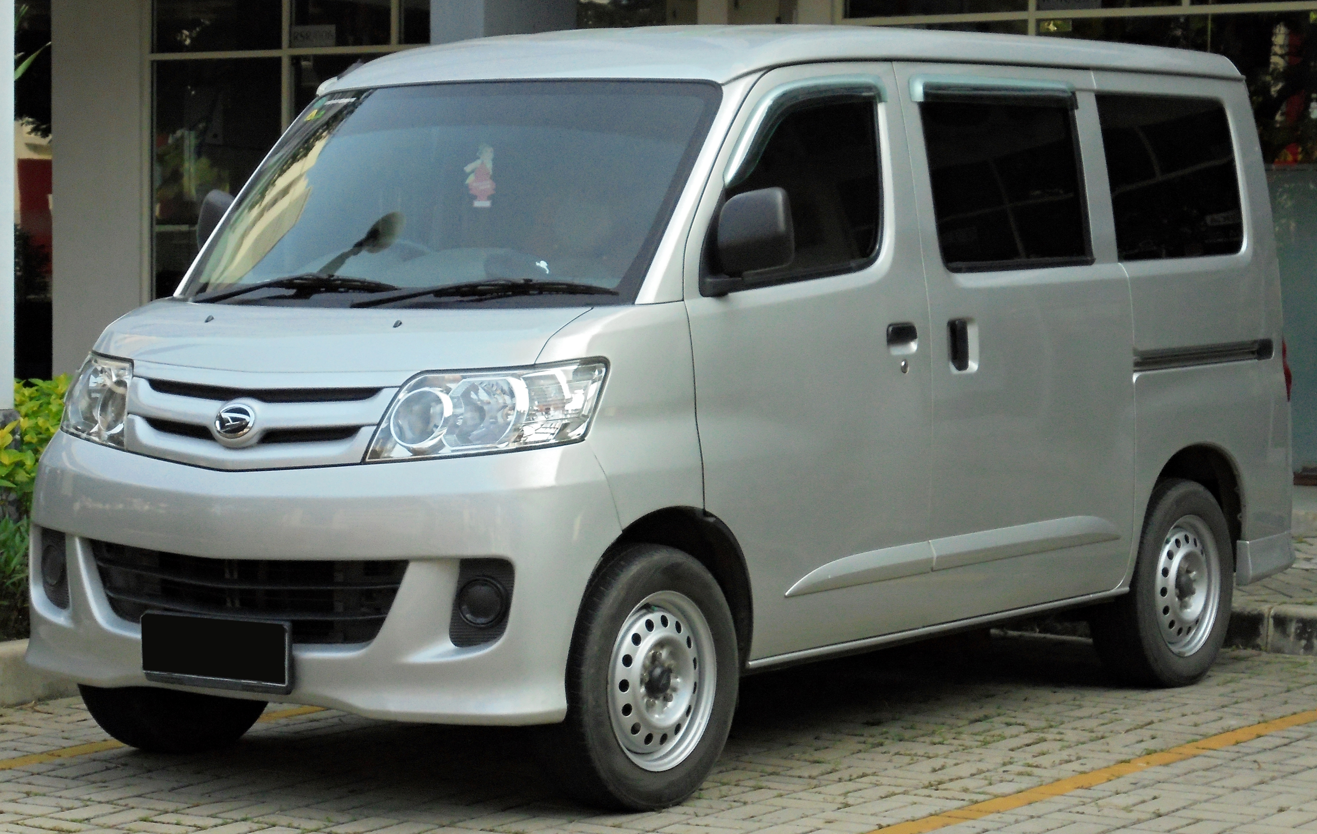 2013 Daihatsu Luxio 1.5 D van (S402RG) photographed in South Tangerang, Banten, Indonesia.